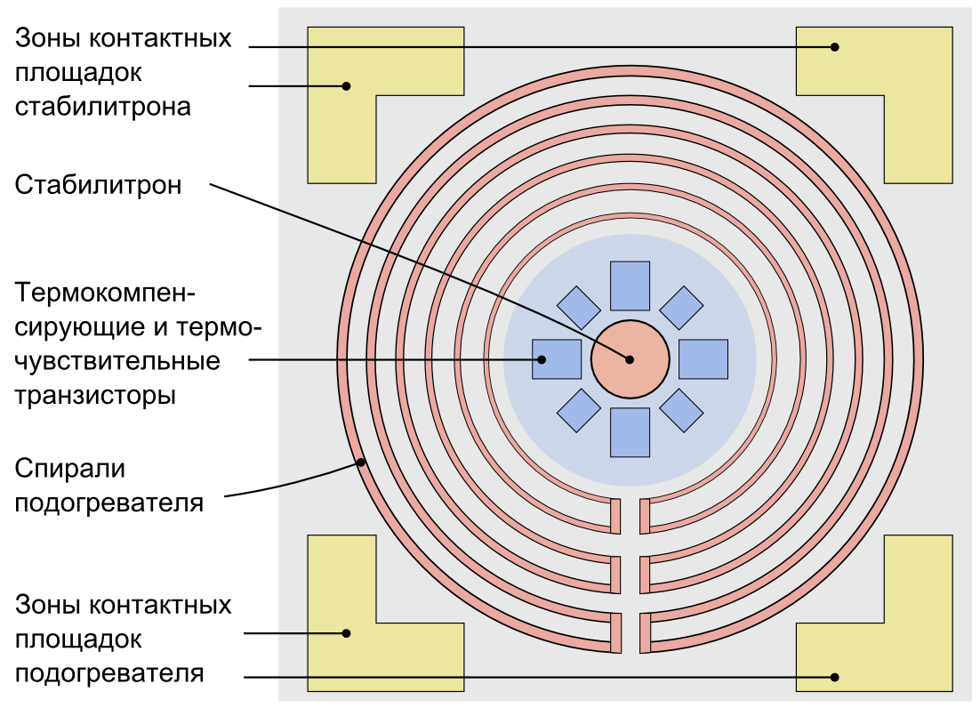 Simplified topology of a precision buried-zener voltage reference